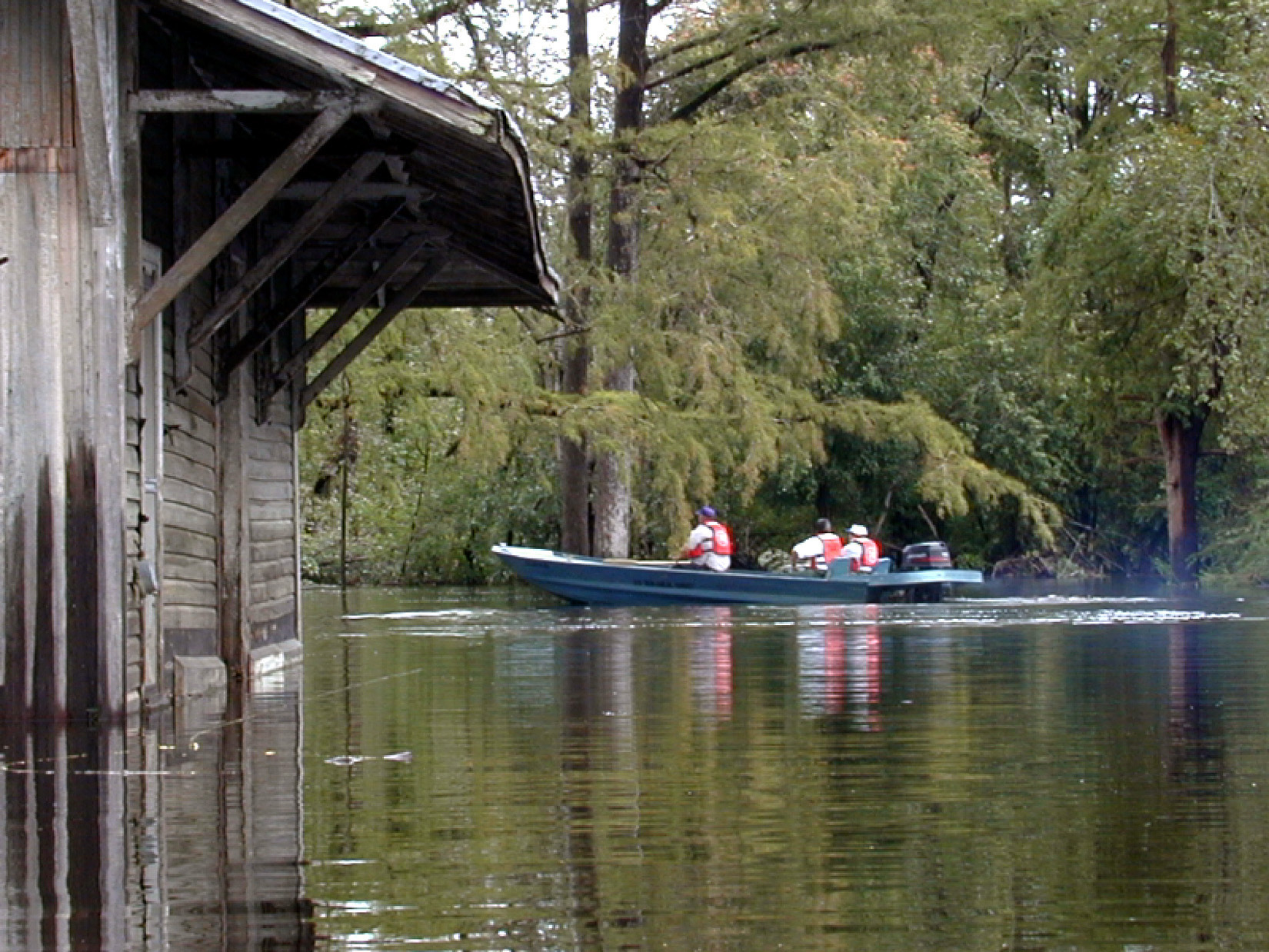 Pollocksville, NC, September 21, 1999 -- US Geologic Survey team is measuring the water flow of the Trent River. Photo by DAVE GATLEY/ FEMA News Photo